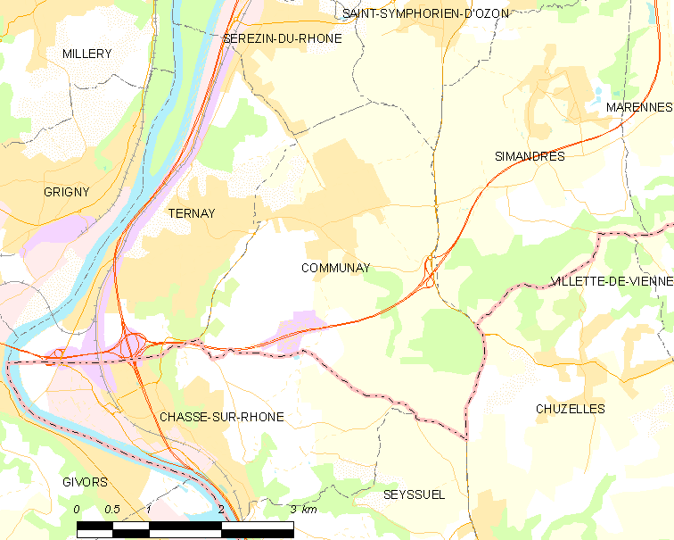 Map of French municipality